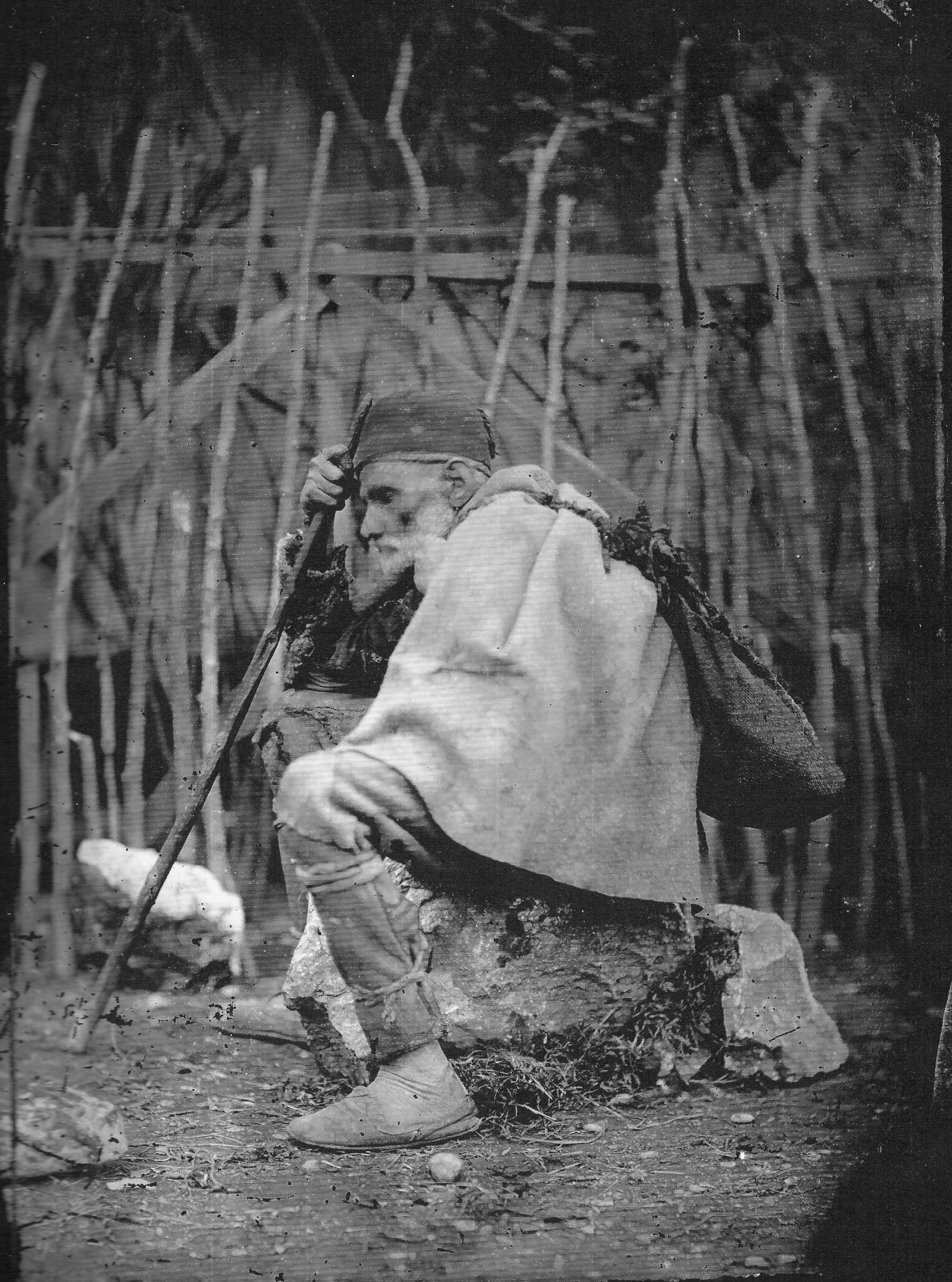 The Beggar, by Pjetër Marubi (Piacenza, 1834 - Shkodra, 1903). Nineteenth century, Shkodra.